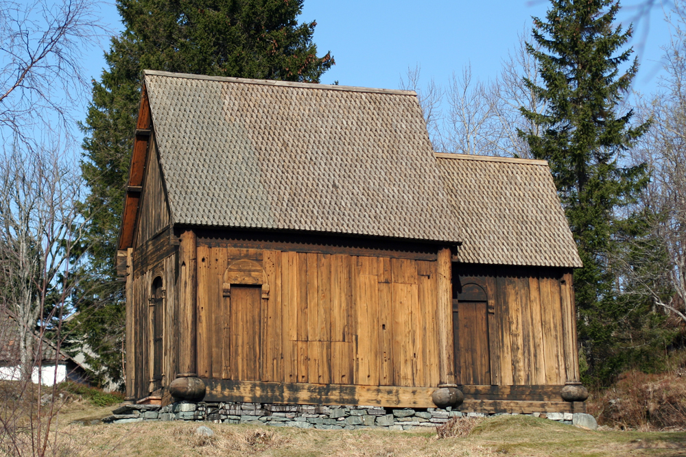 Haltdalen Stave Church from around 1170 - originally from Haltdalen in Norway. This original now is at the Sverresborg Museum in Trondheim, but a copy can be found at the original site in Haltdalen.